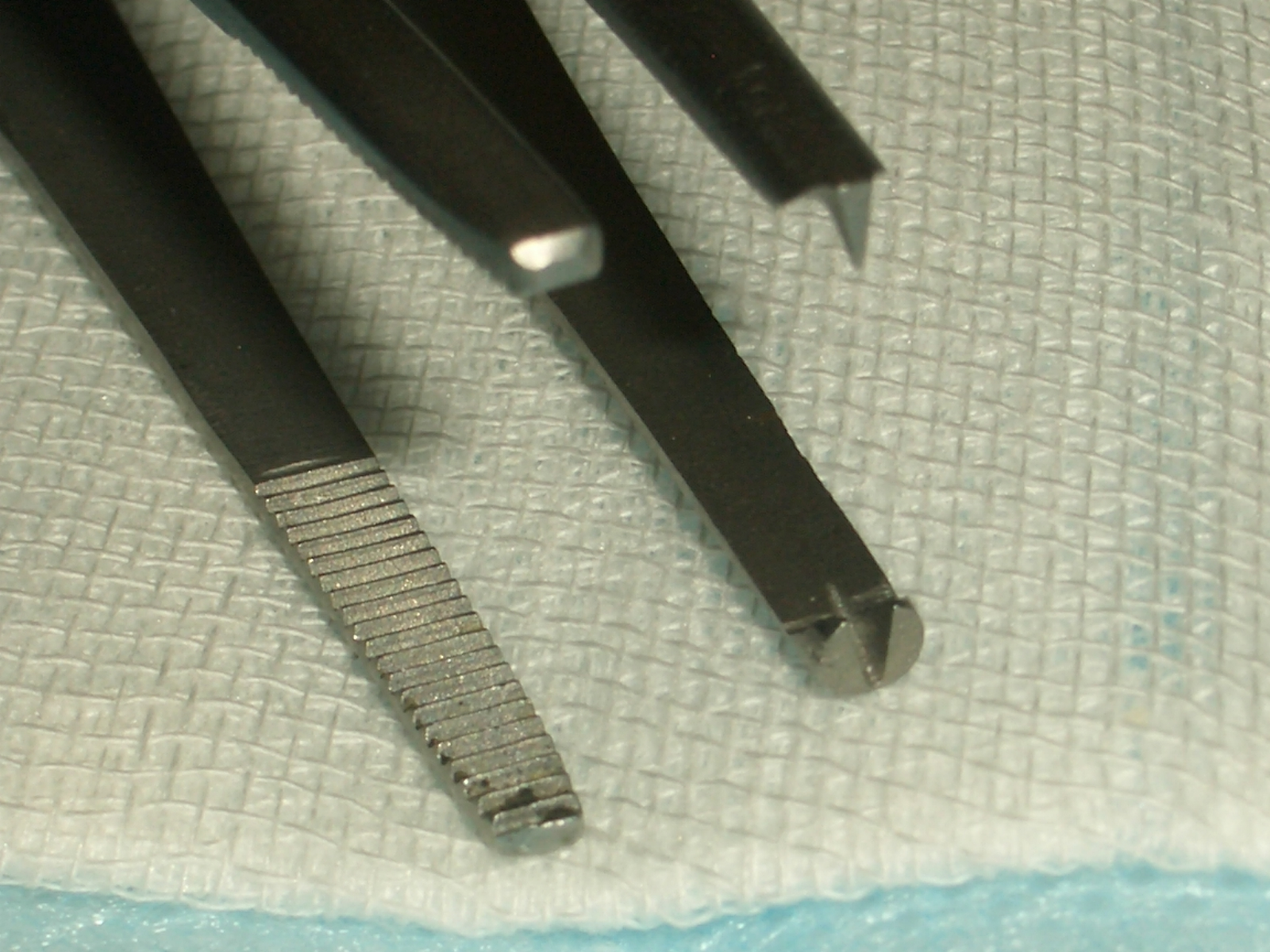 Thumb forceps are commonly held between the thumb and two or three fingers of one hand, with the top end resting on the first dorsal interosseous muscle at the base of the thumb and index finger.